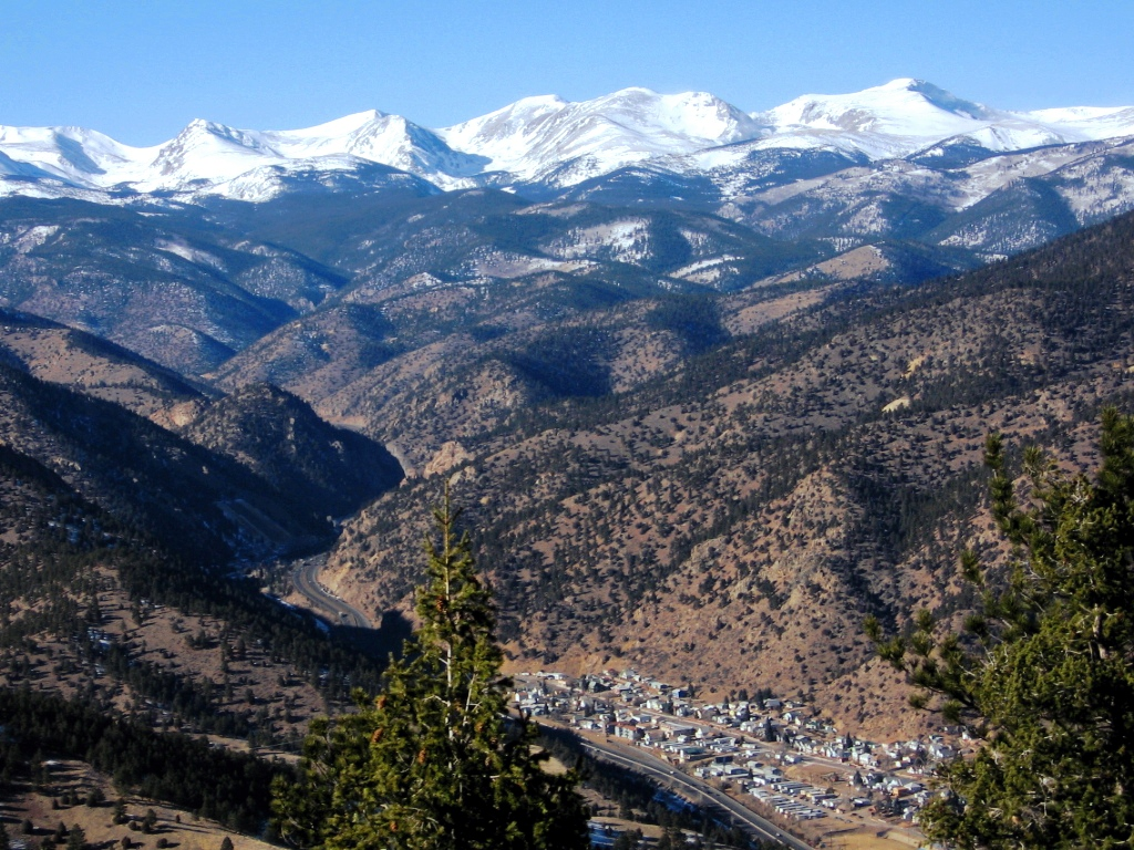 Overlooking Idaho Springs, Colorado, with the continental divide in the background, including Mt. Flora and Mt. Eva on the left and James Peak on the right.